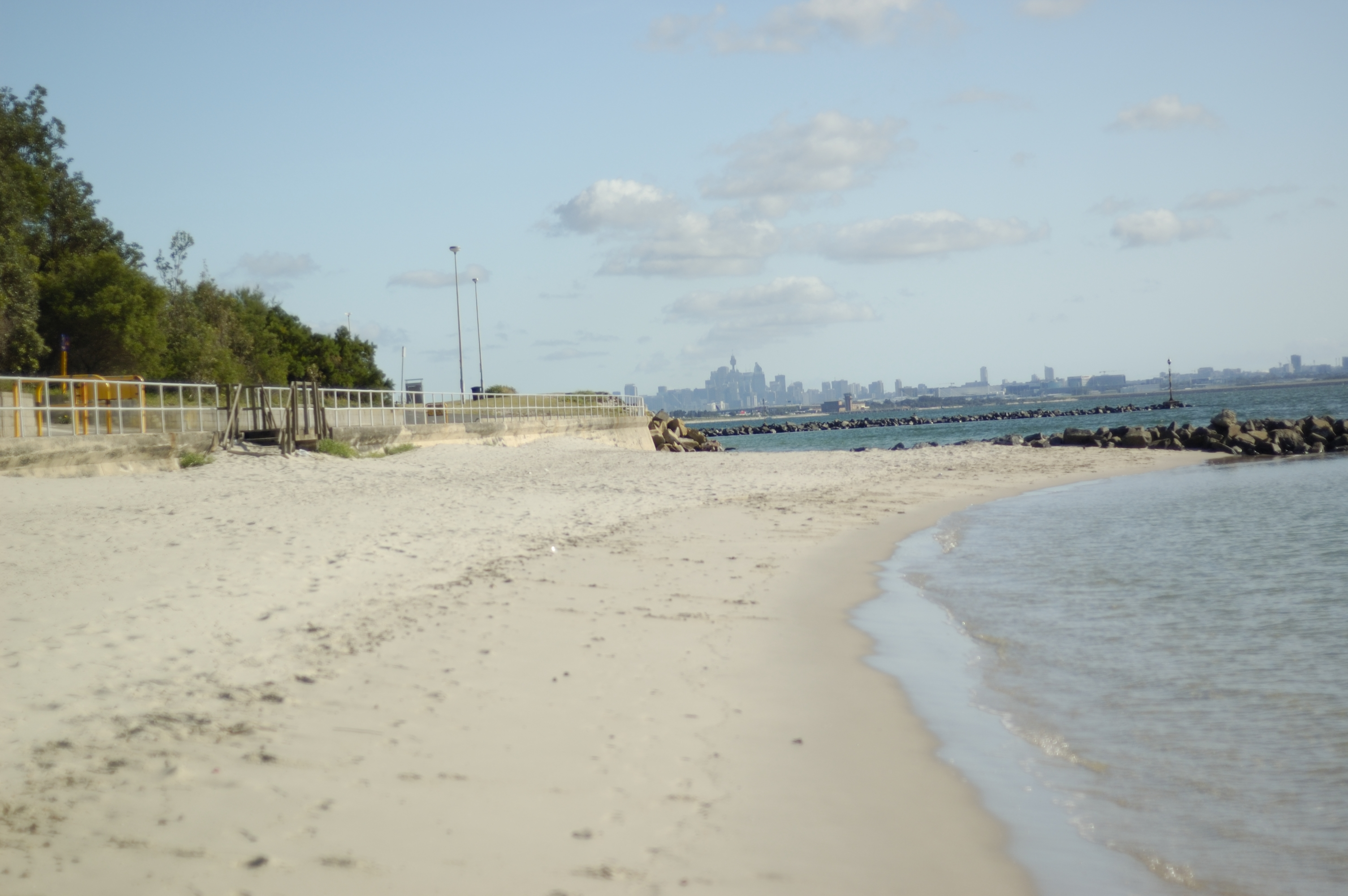 Moneterey Beach